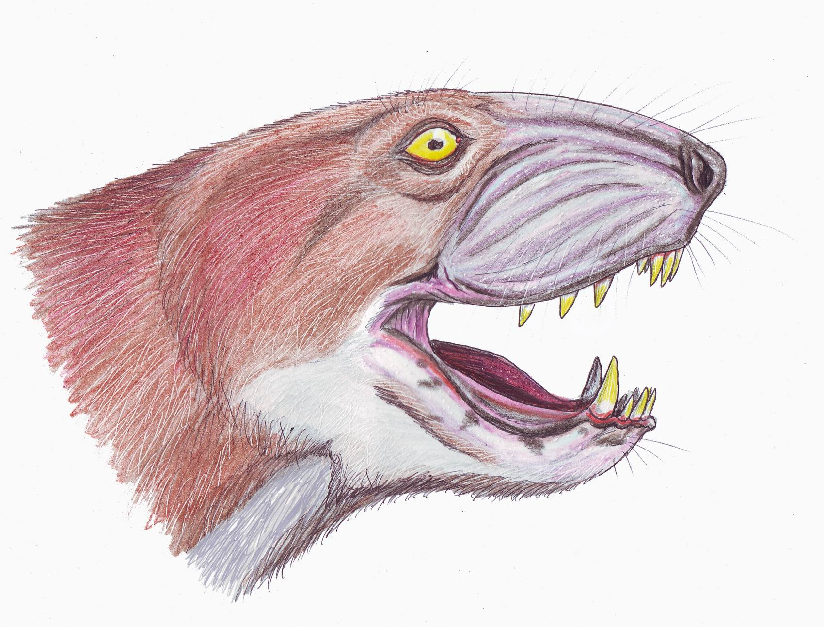 Head of unnamed East European moschorhinid, based on description of Ivakhnenko (2000)